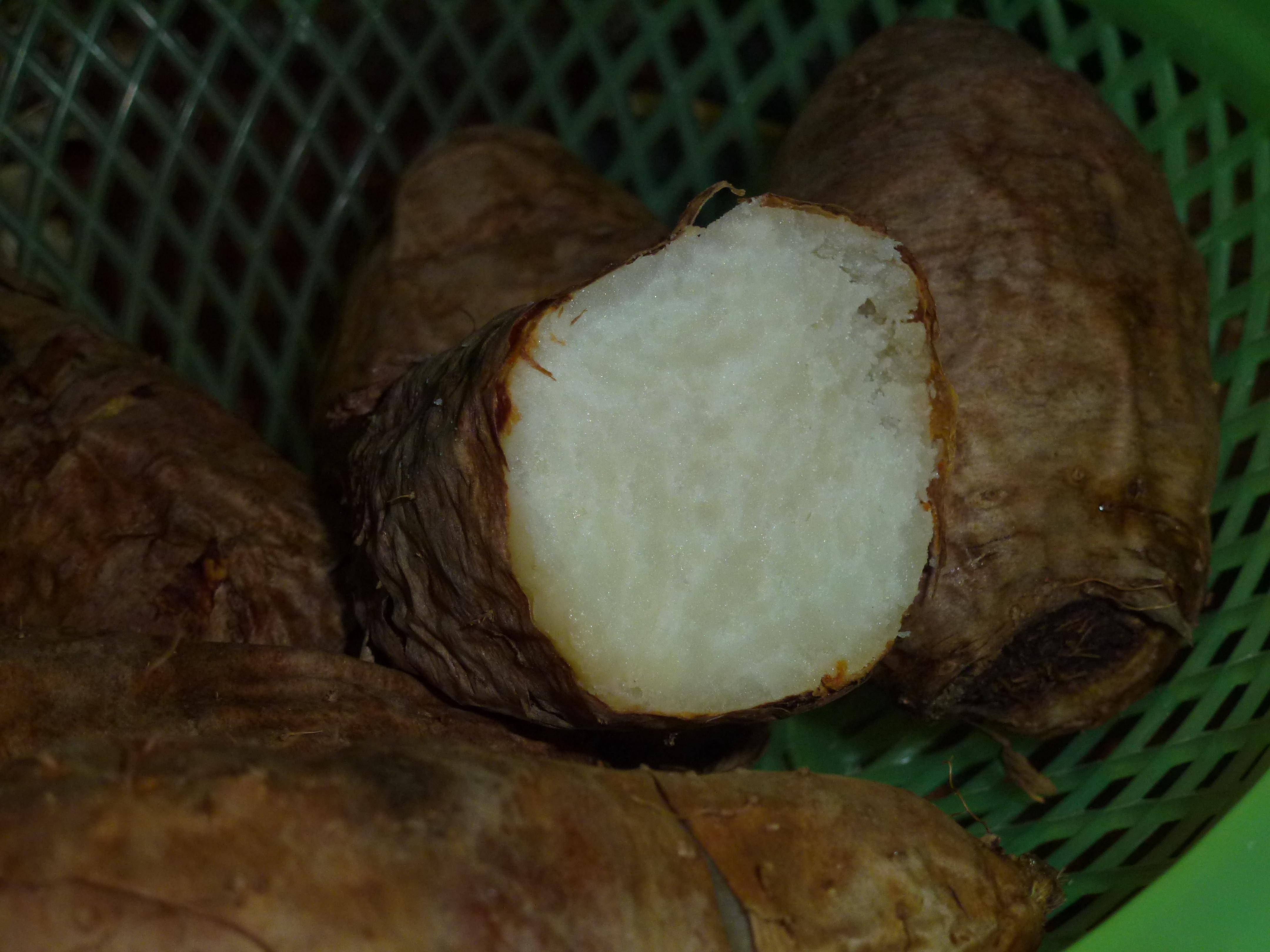 Dioscorea esculenta tuber